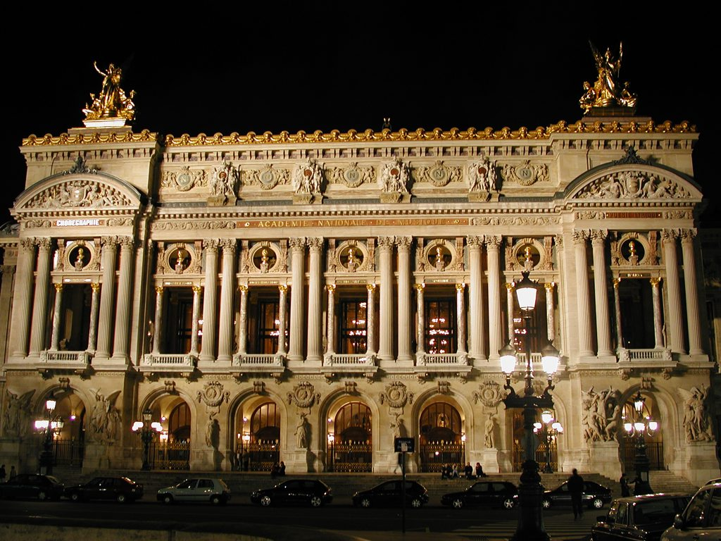 The Palais Garnier, also known as the Opéra Garnier, is a 2,200 seat opera house in Paris, France. A grand landmark designed by Charles Garnier in the Neo-Baroque style, it is regarded as one of the architectural masterpieces of its time.